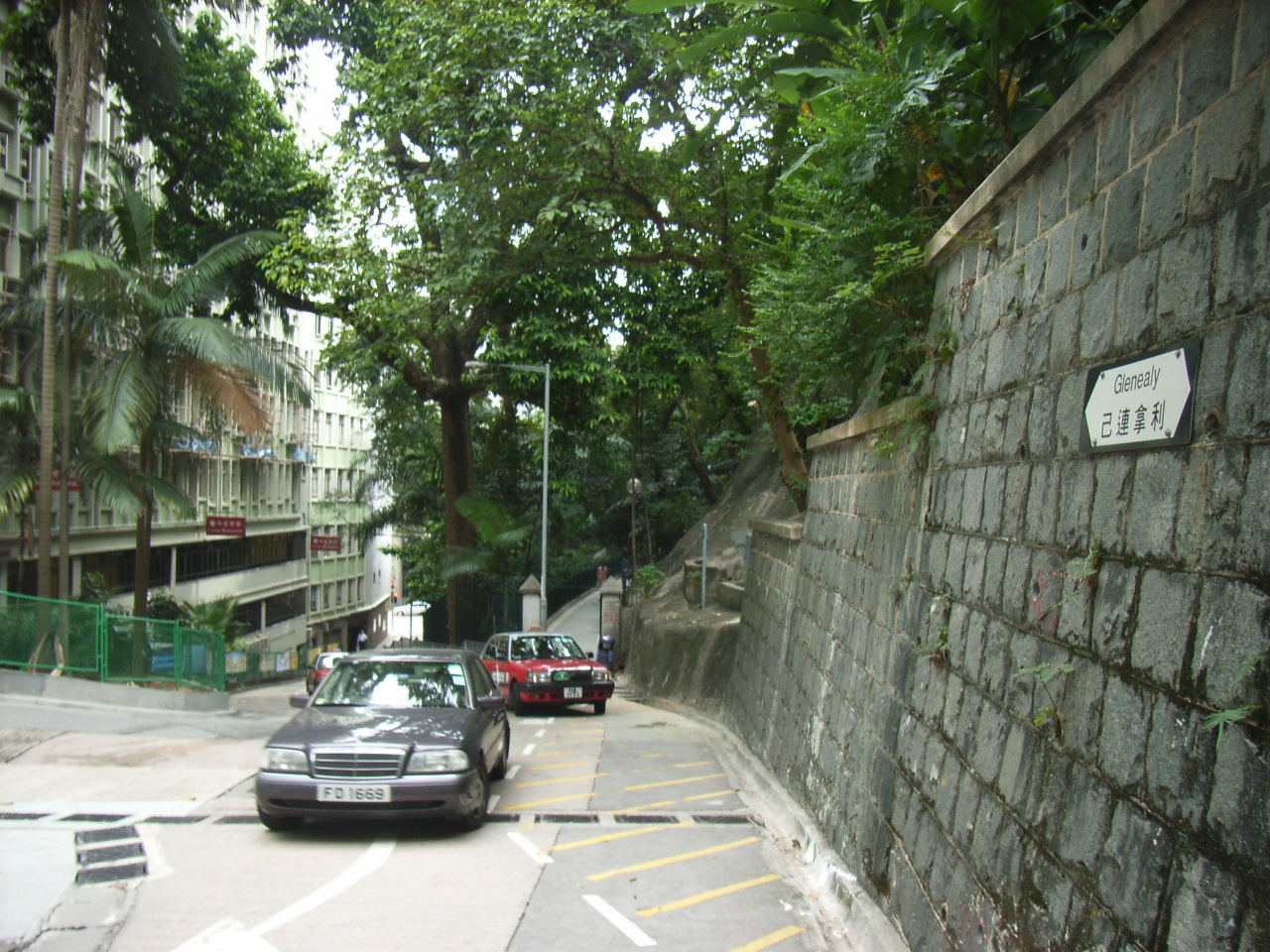 己連拿利, Glenealy, Mid-Levels, Hong Kong